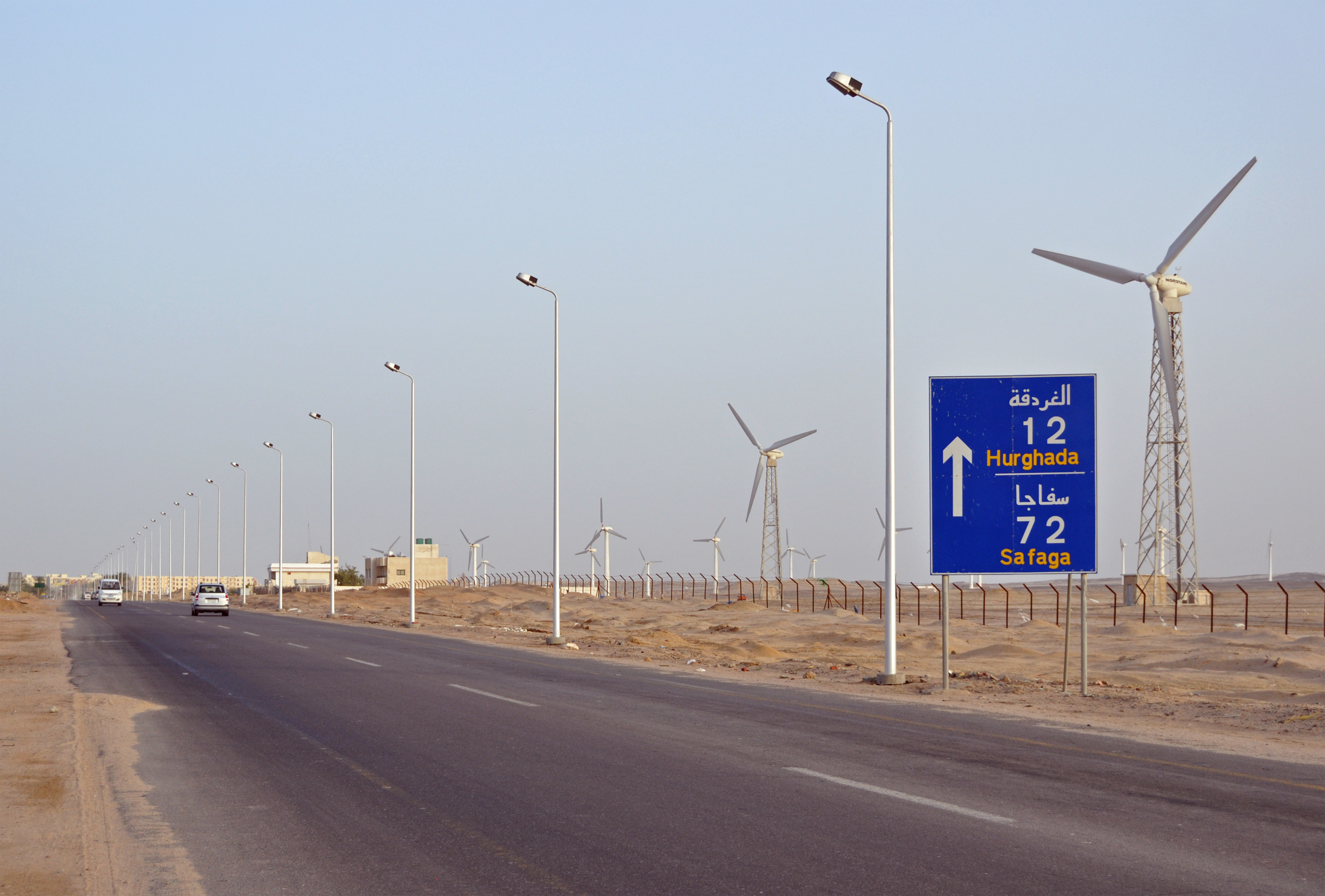 The road from Ismaïlia tot Hurghada and Safaga, in the neighbourhood of Hurghada (Egypt)